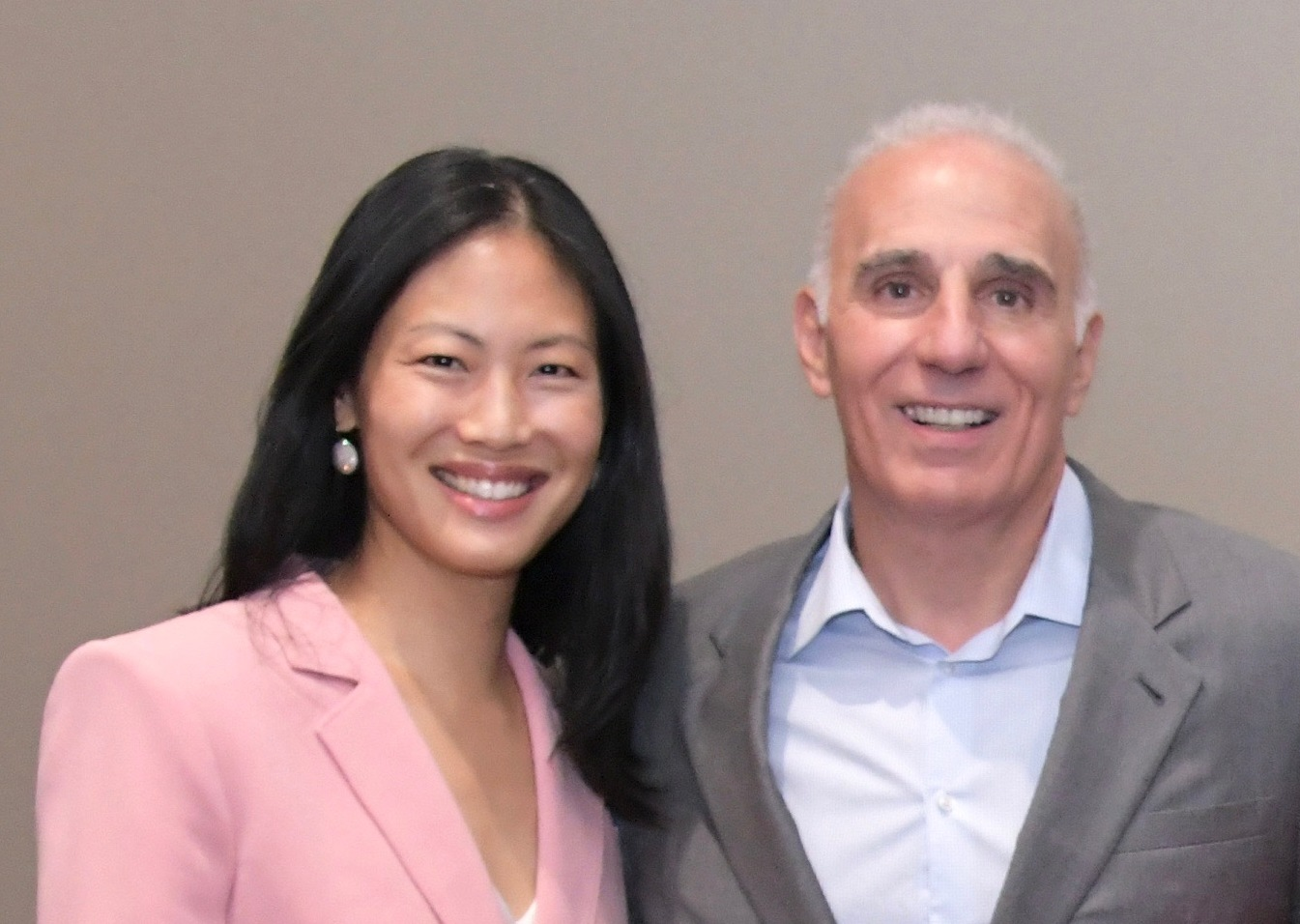 Mitchell Rales, Emily Wei Rales, Yumi Hogan, Isaiah Leggett